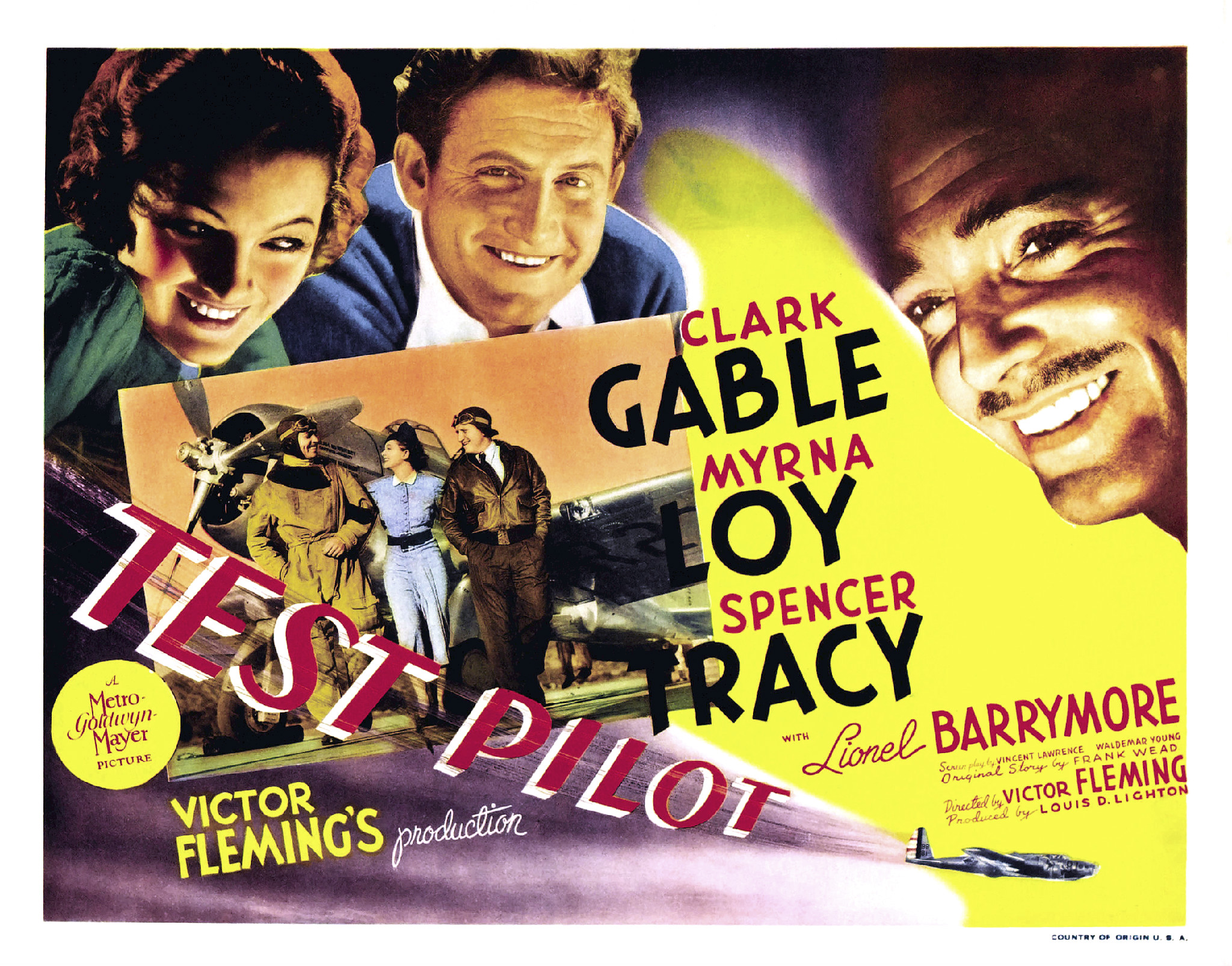 Lobby card for the 1938 film Test Pilot with Spencer Tracy, Clark Gable and Myrna Loy.